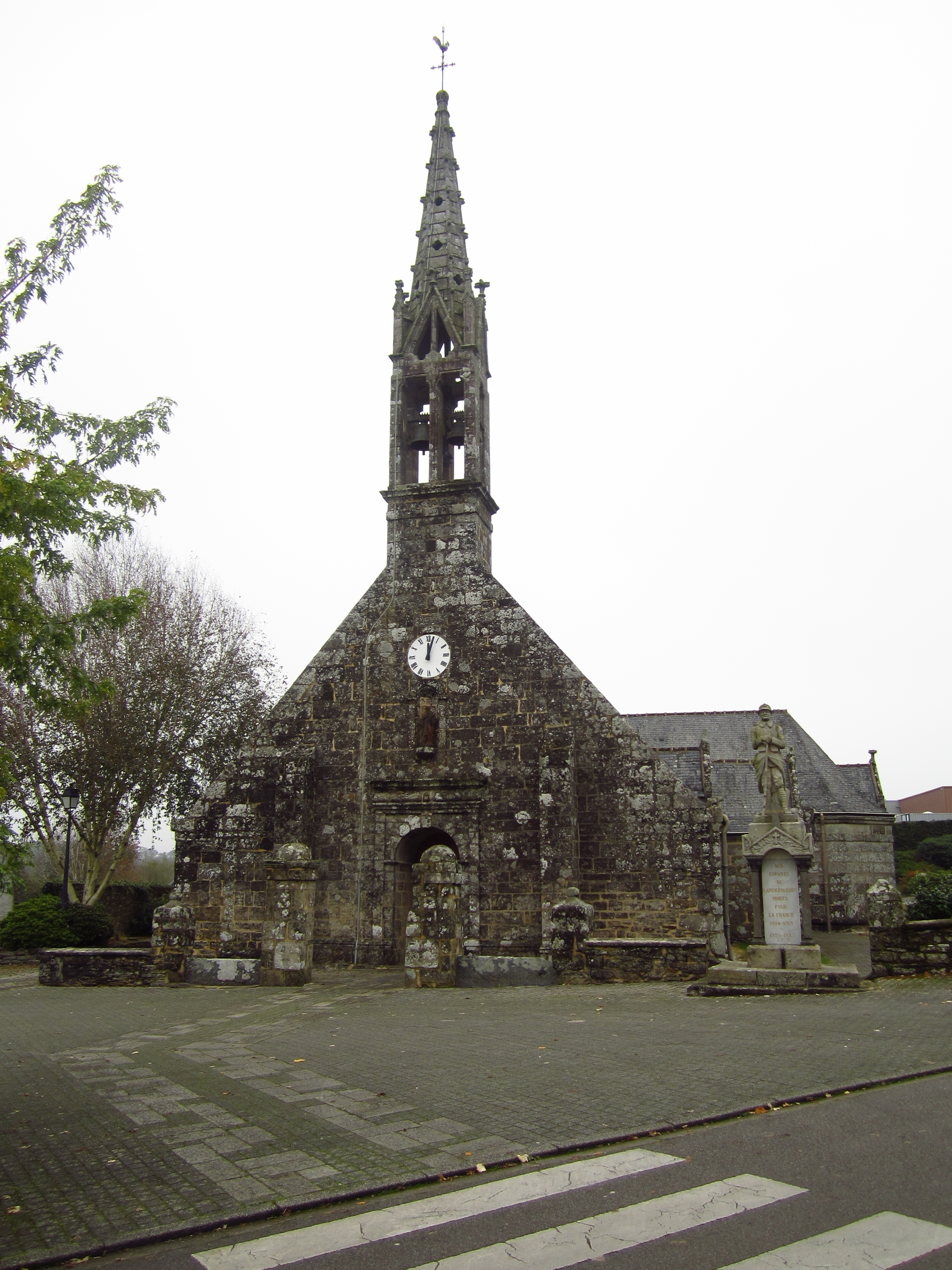 Church of Landrévarzec, Finistère